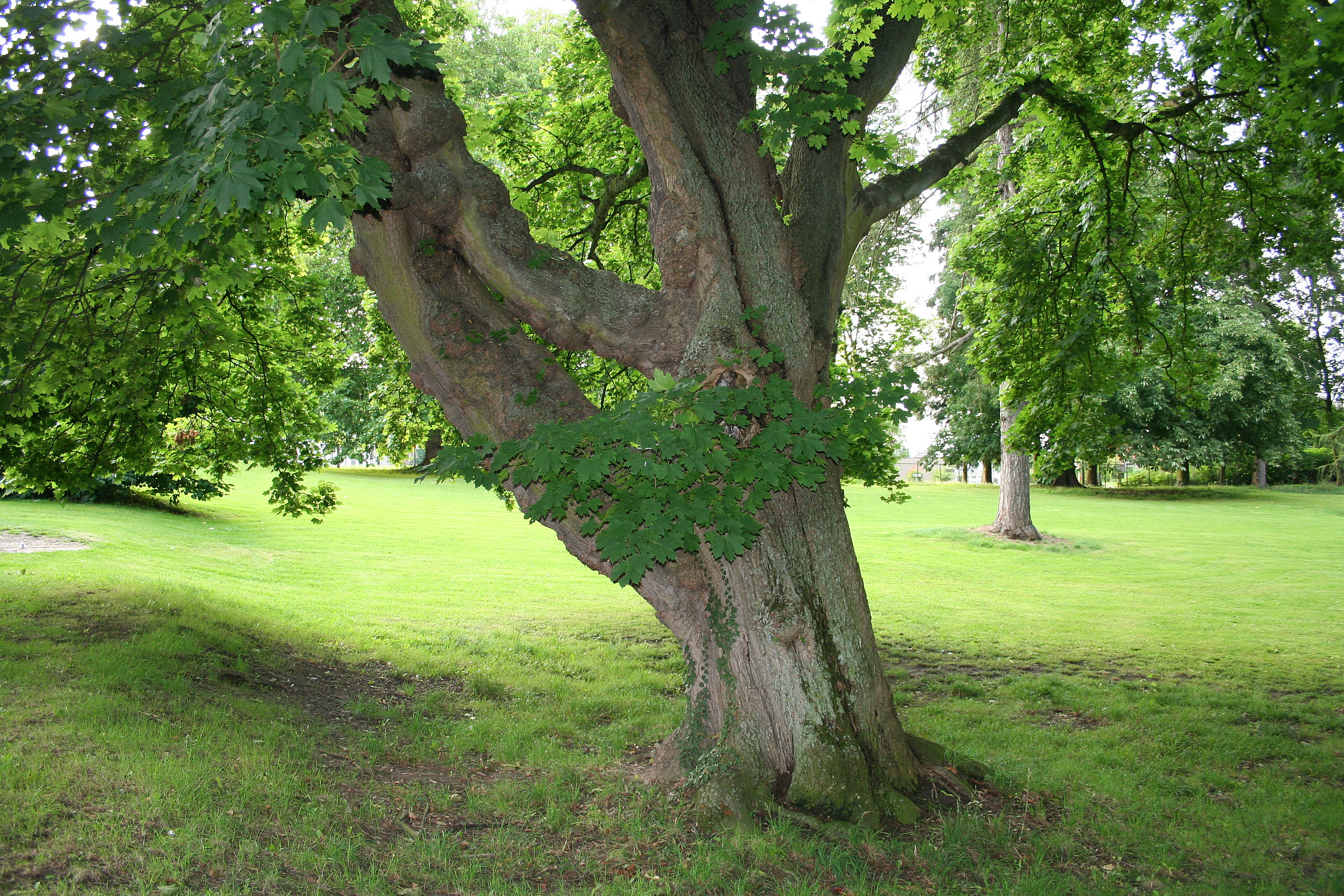 Norway Maple.